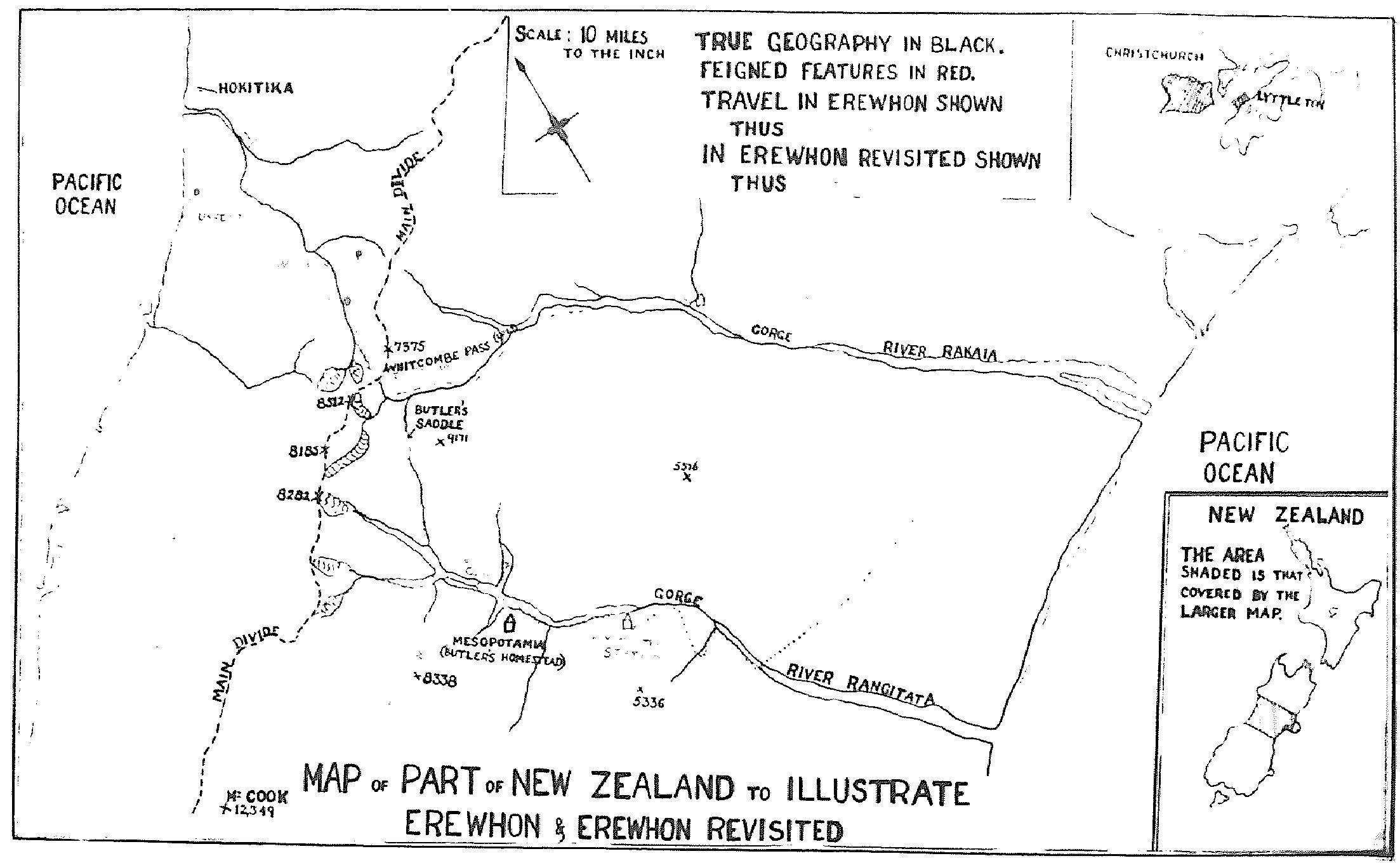 Map of part of New Zealand to illustrate Erewhon and Erewhon Revisited Publication of original map from the Samuel Butler Collection, St. John's College, Cambridge